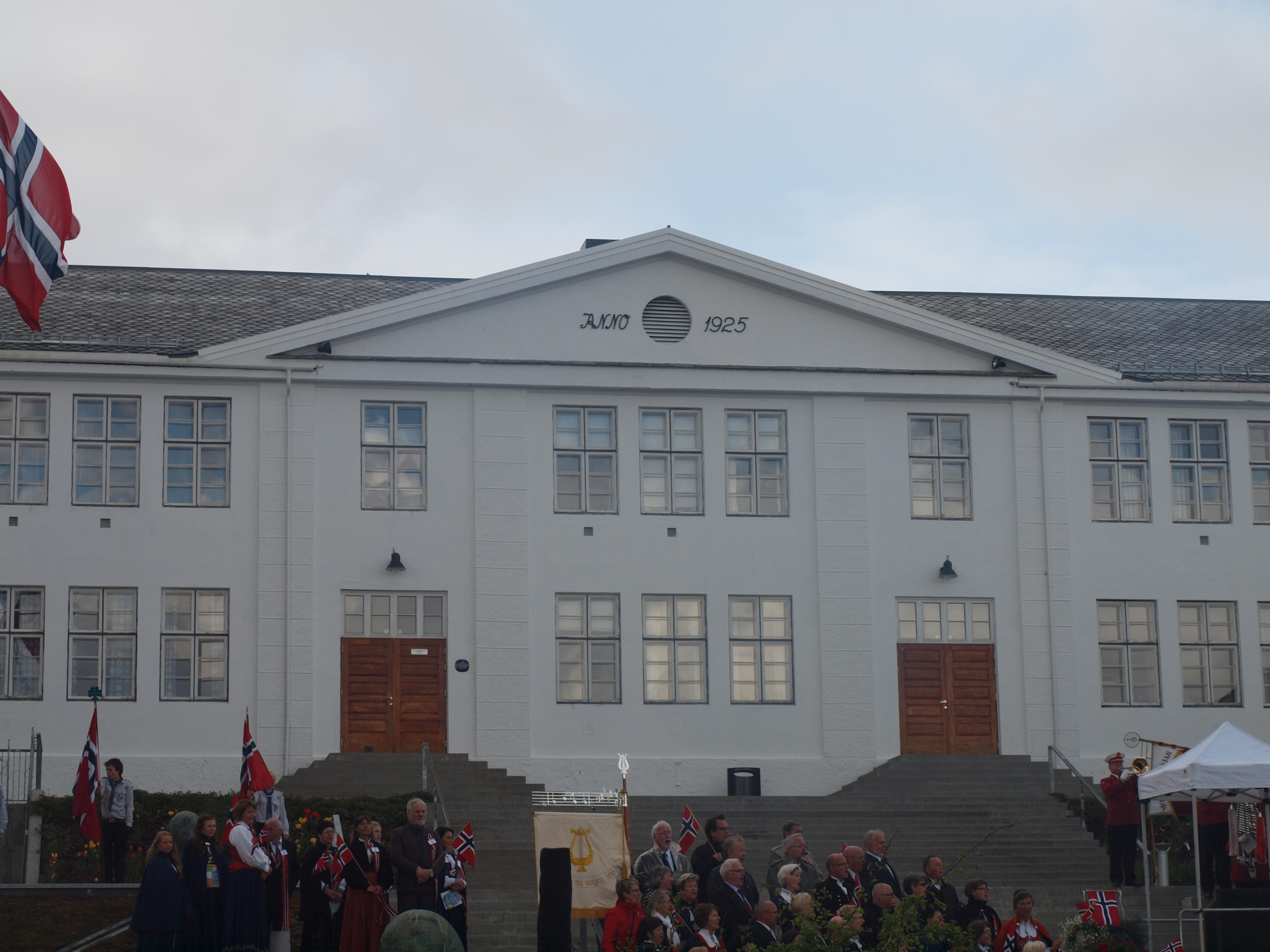 Molde high school